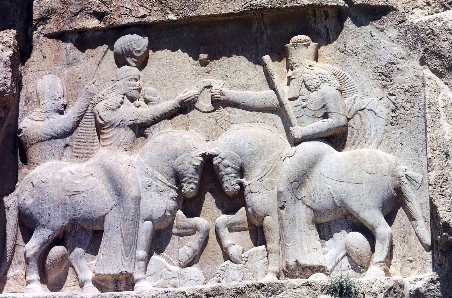 A relief at Naqsh-e Rustam with Ardeshir I and unidentified cavalier. This Persian rock relief depicts Ardashir I Coronation scene; the first king of the Sassanid Empire of Iran. Ardashir receives the ribboned diadem (cydaris), the symbol of kingship, from the spirit of Darius the Great of the Achaemenid dynasty.[92] Under the horse of the King Ardashir lies the last of the Parthian Kings, Artabanus. Under the horse of King Darius lies Gaumata the usurper, a Magian,. The relief of Ardashir is, therefore, the legitimization of the new Sassanian dynasty by the pre-Alexander Achaemenid dynasty. The inscription in Persian, Parthian, and Greek, reads: This is the image of the Hormizd-worshipping Majesty Ardashir, whose origin is of the gods.